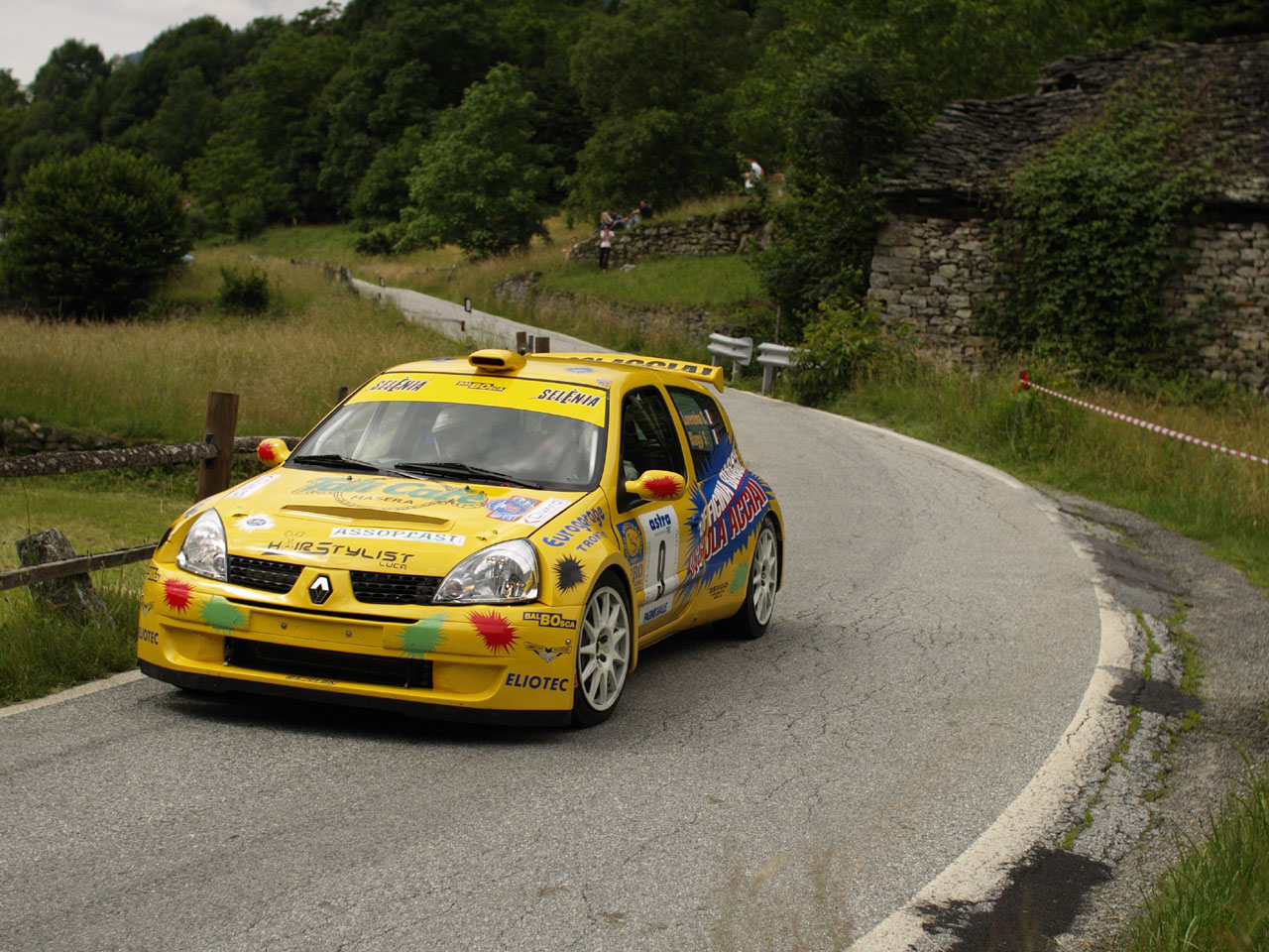 G. Lorenzina and S. Biaggi with a Super 1600 class Renault Clio at the 2007 Rally Valli Ossolane in Italy.